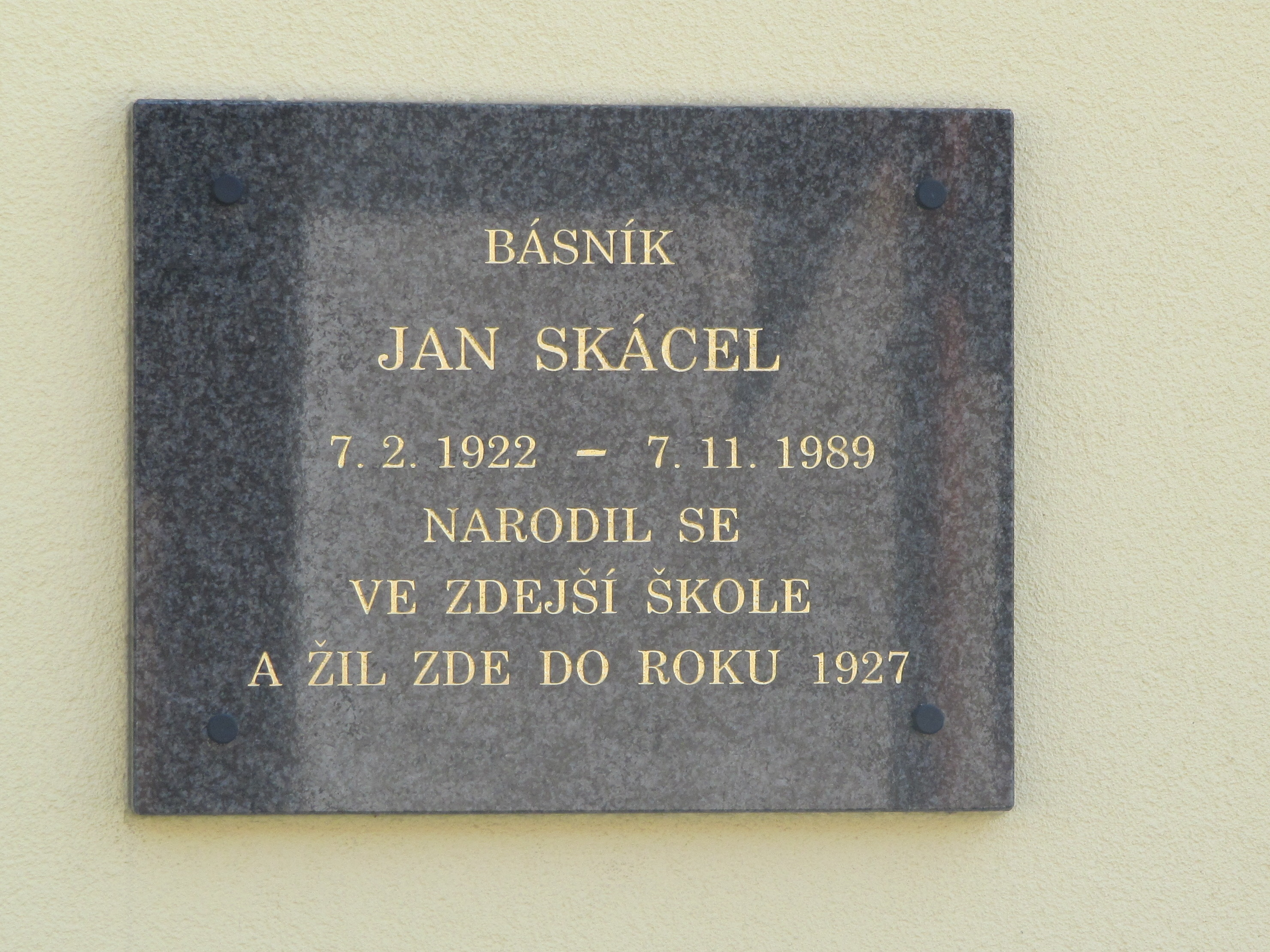 Vnorovy in Hodonín District, Czech Republic. School, plaque to poet Jan Skácel.